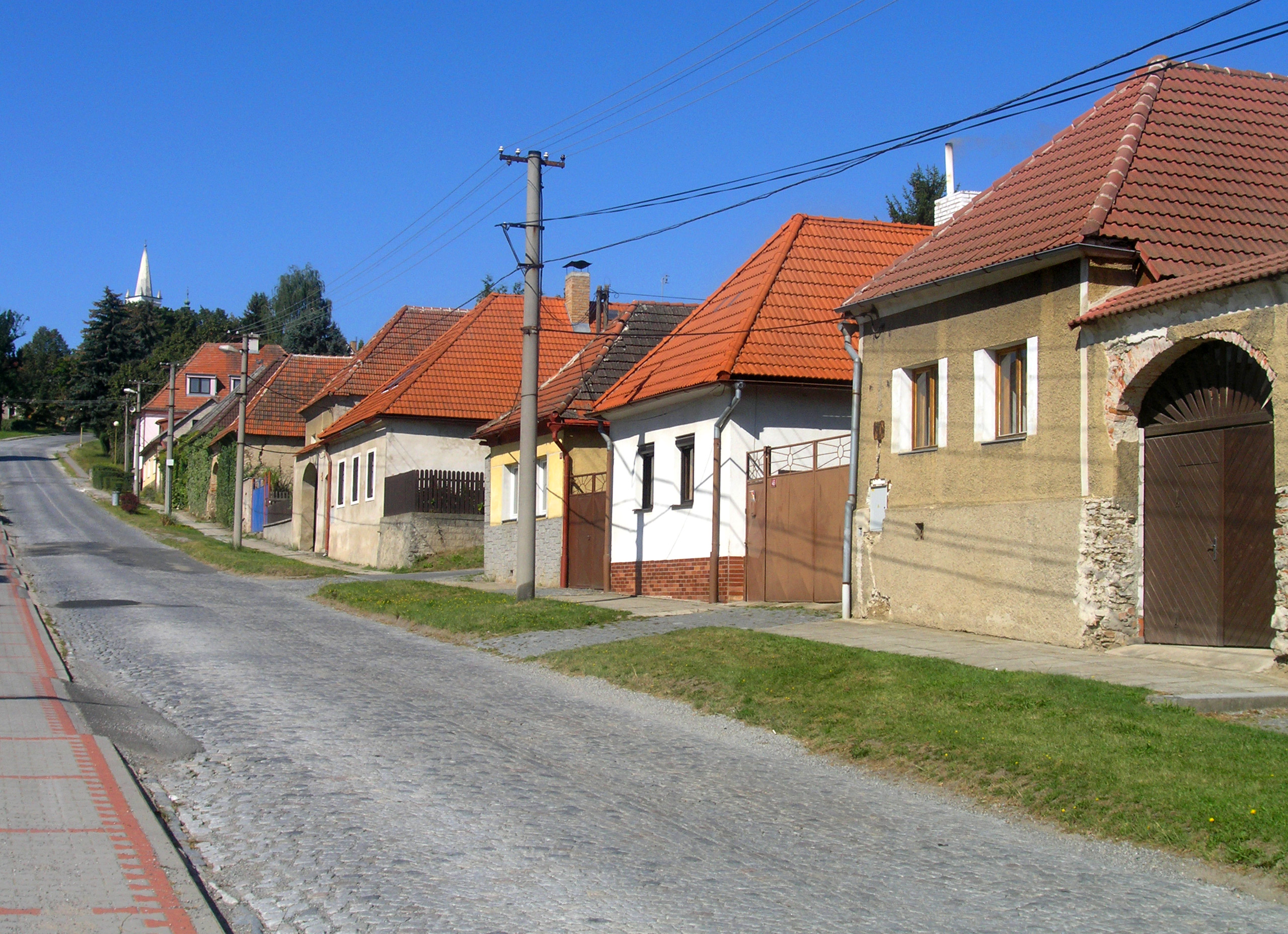 main local street in Miličín, Czech Republic